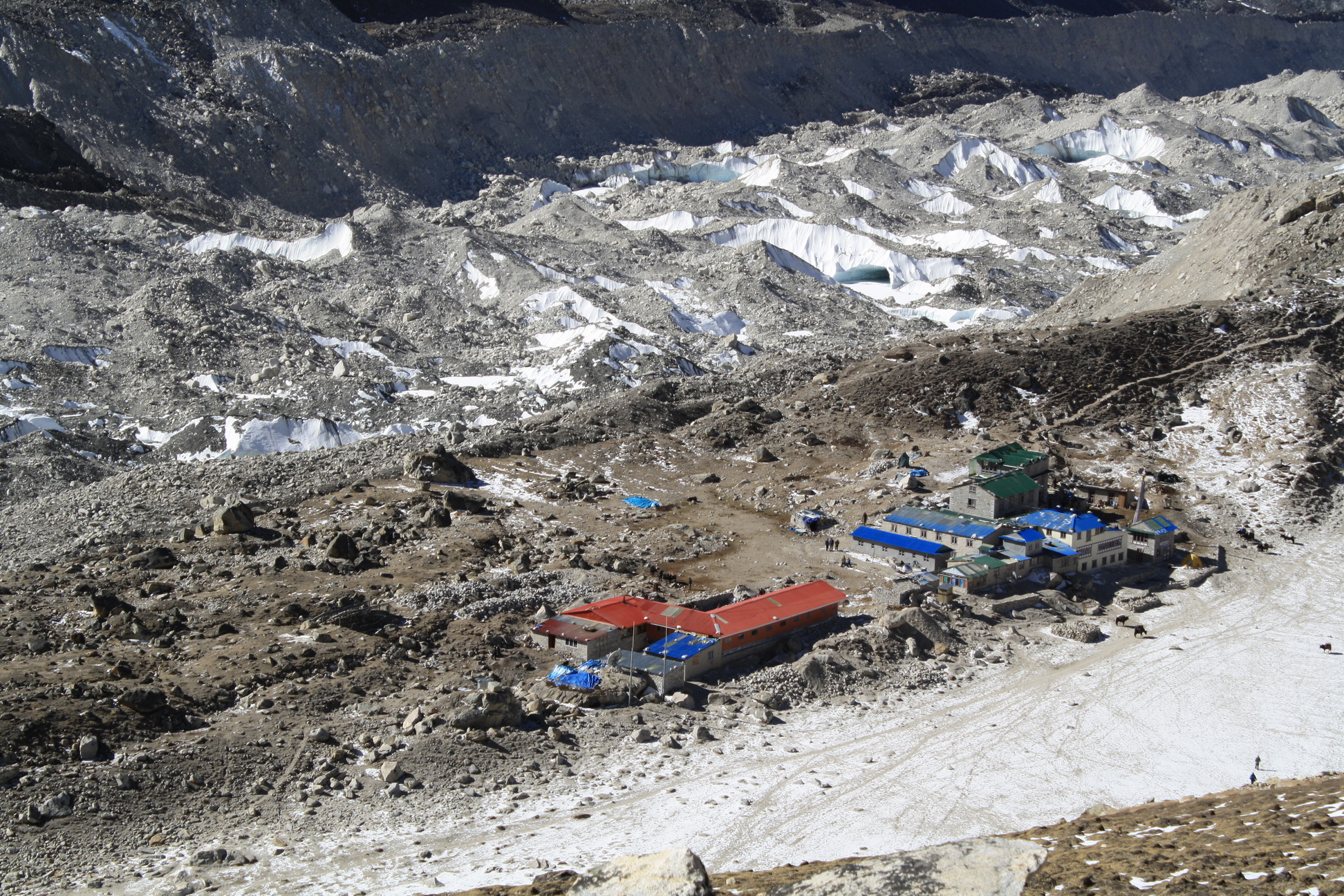 Gorak Shep village with part of Khumbu Glacier in the background